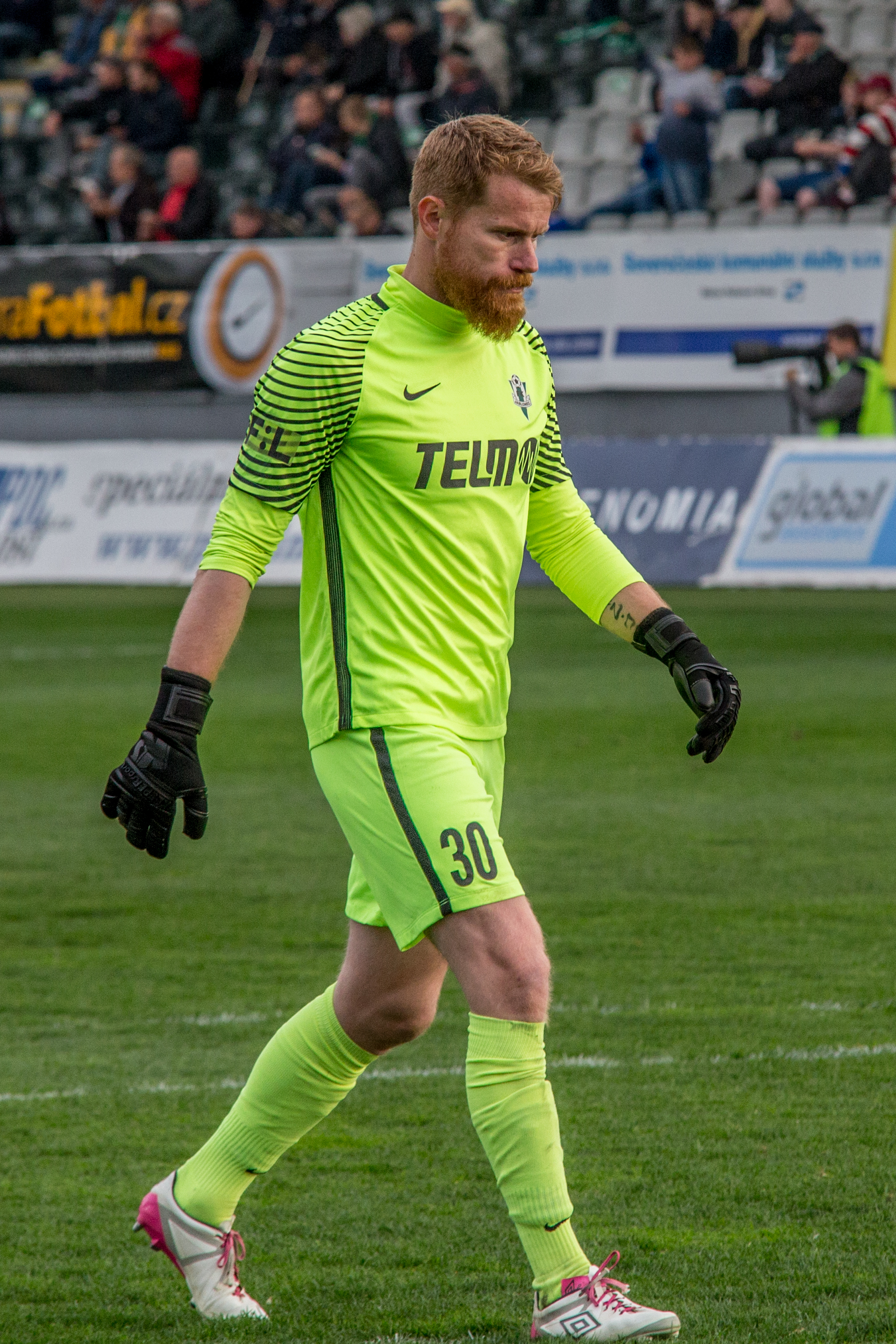 Vlatimil Hrubý at the Czech First League association football match with FK Jablonec v FC Baník Ostrava Personality rights warningAlthough this work is freely licensed or in the public domain, the person(s) shown may have rights that legally restrict certain re-uses unless those depicted consent to such uses. In these cases, a model release or other evidence of consent could protect you from infringement claims.